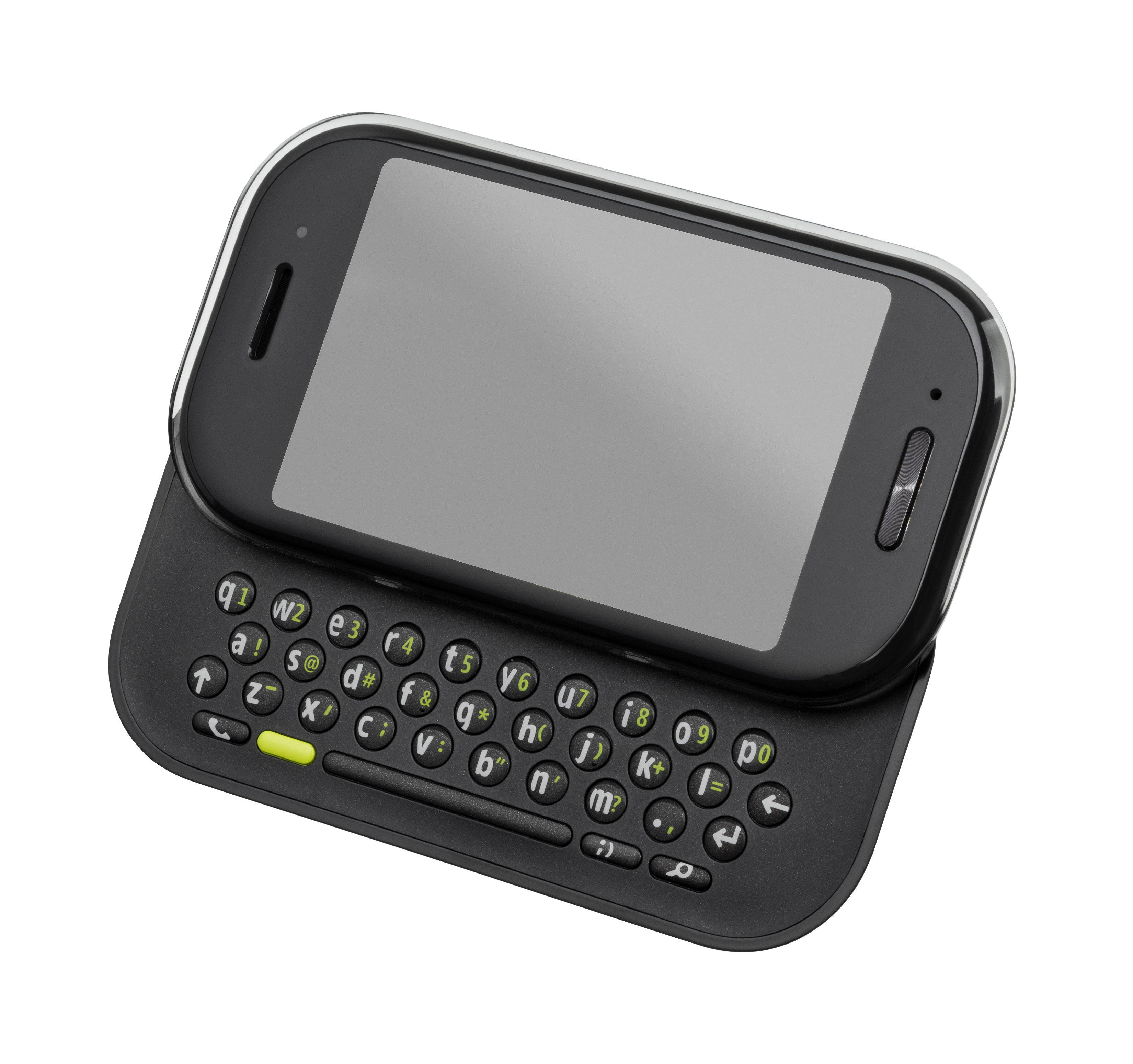 The Microsoft Kin Two (shown open), a 2010 cellphone that was manufactured by Sharp and sold through Verizon Wireless. The phone used a special social-media-based OS and is notable for being a critical and commercial failure, being discontinued less than two months after it launched.